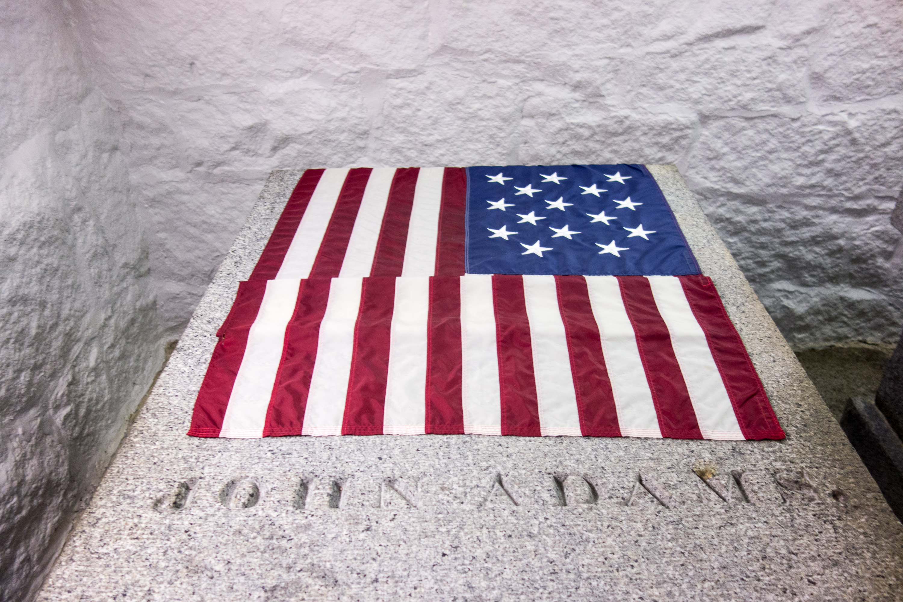 Resting place of US President John Adams at United First Parish Church, Quincy, MA.